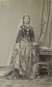 Countess Amelie of Hohenstein in medieval costume